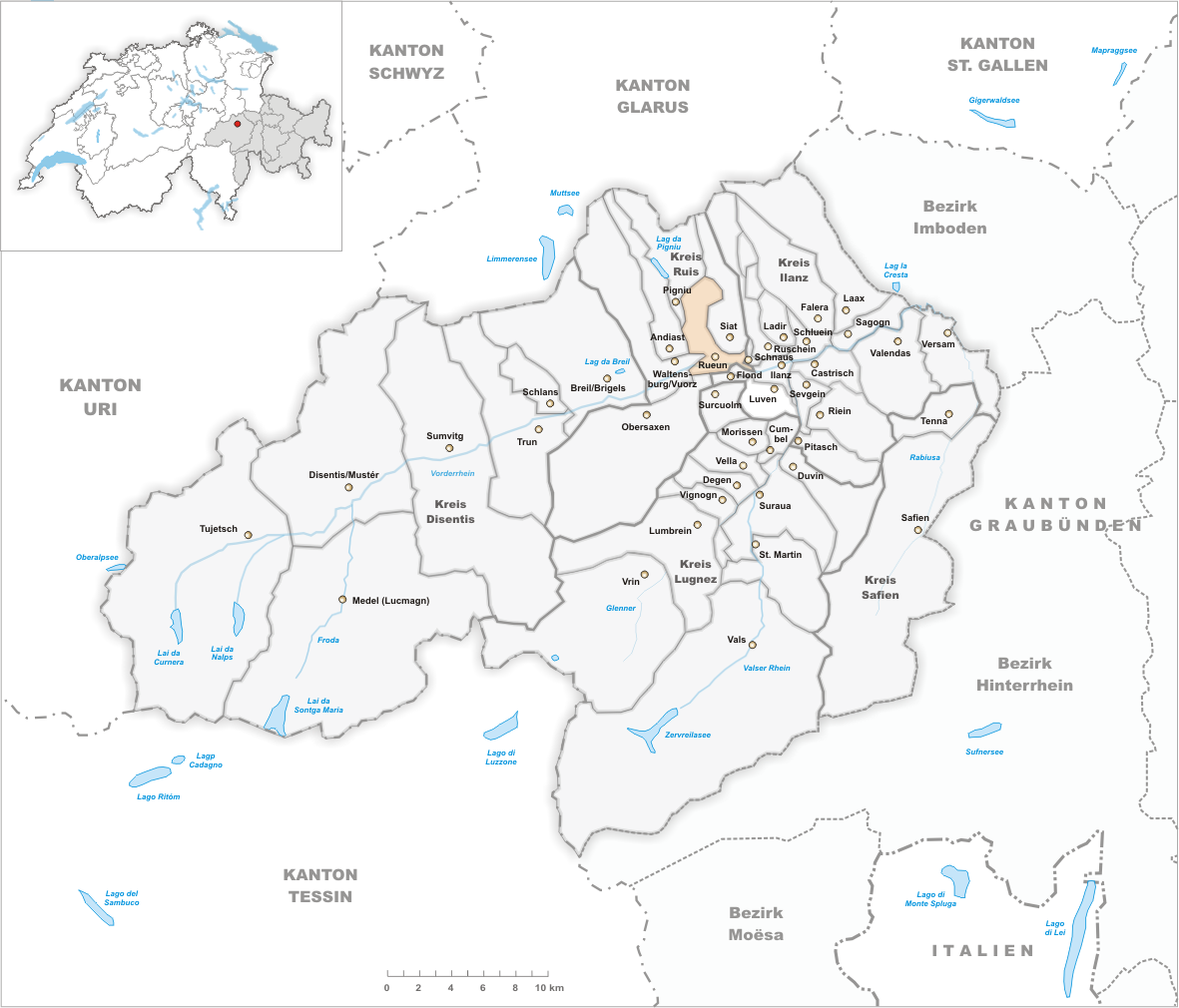 Municipality Rueun